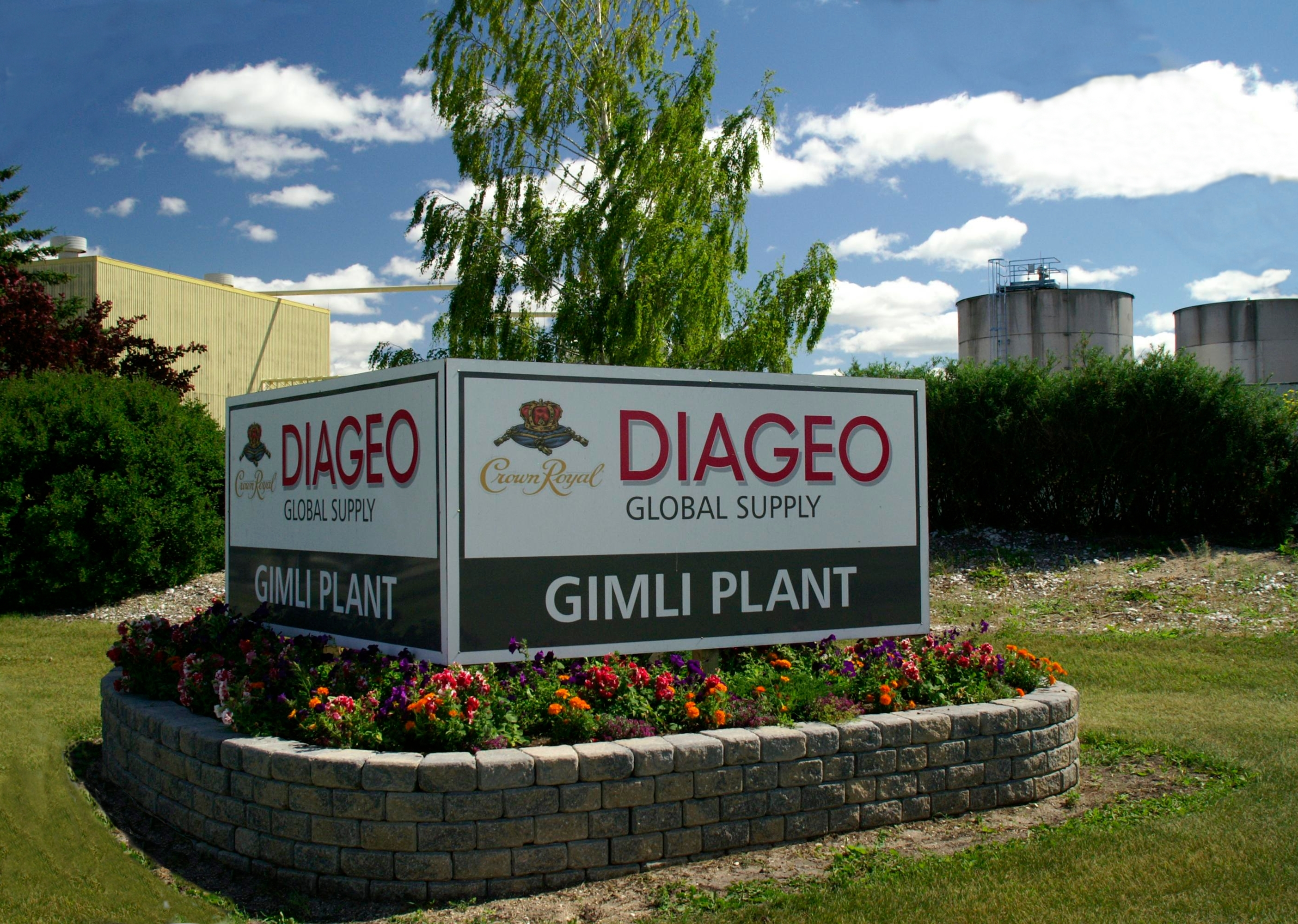 Diageo global Crown Royal supply plant, Gimli, Manitoba, Canada